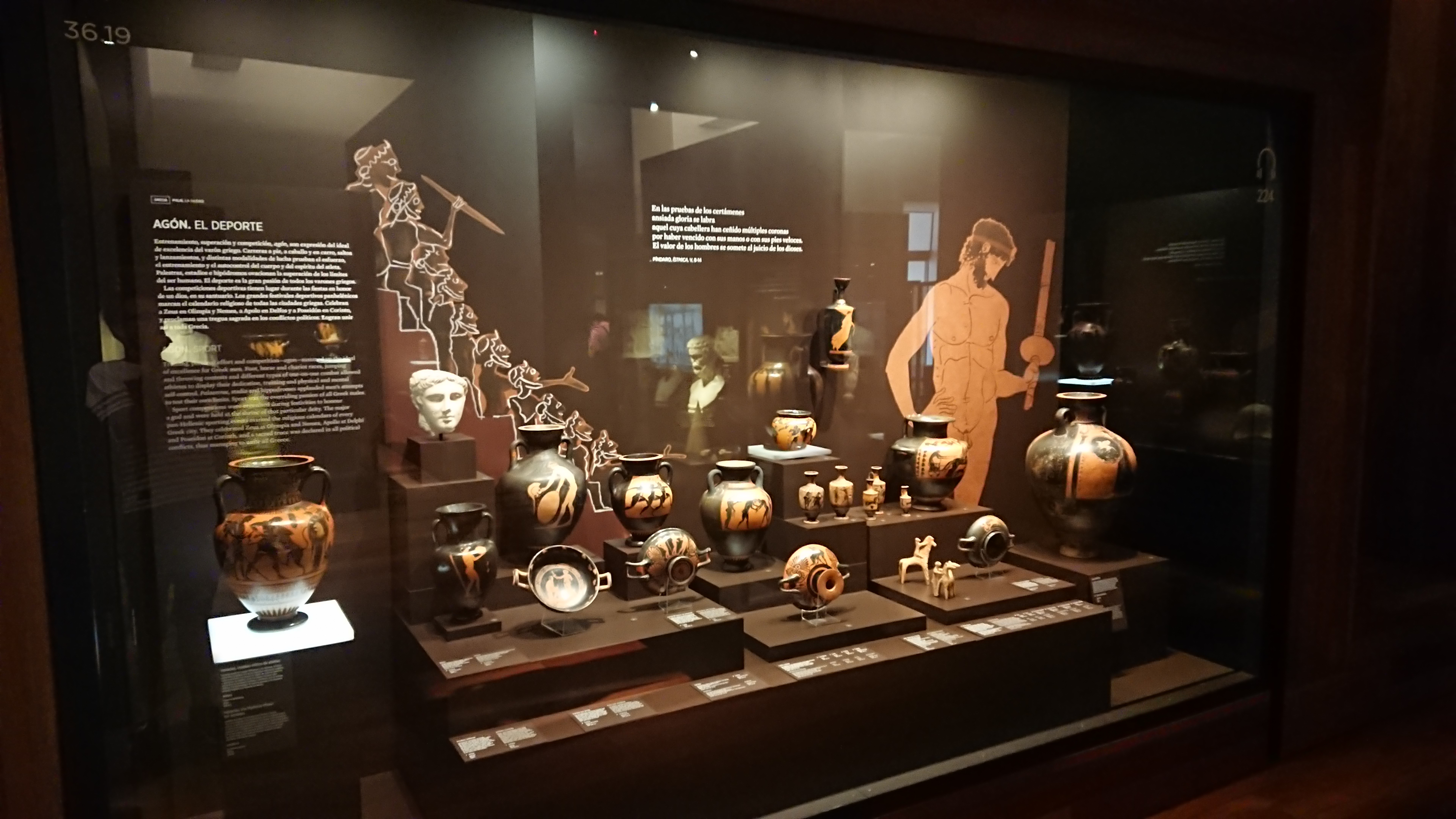 National Archaeological Museum, Madrid (Spain)